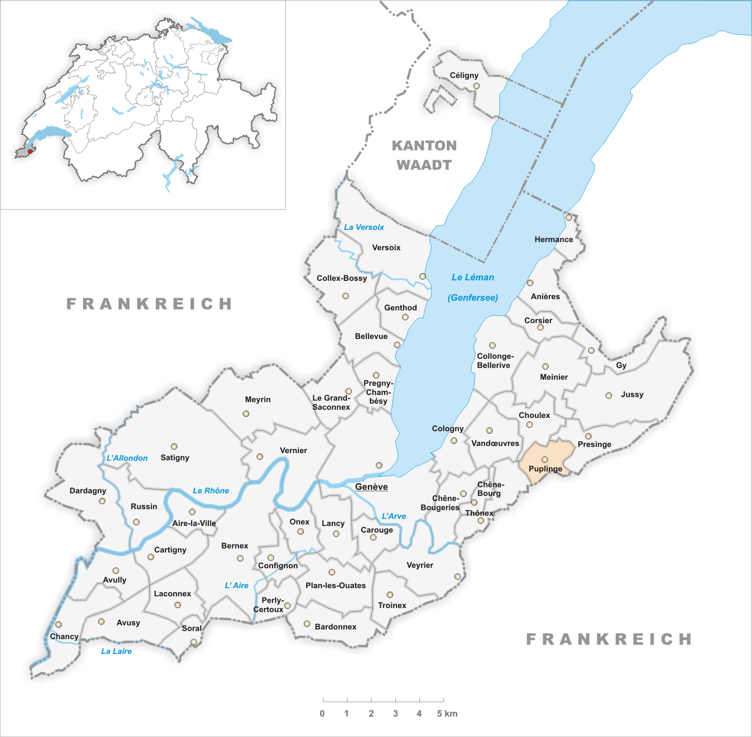 Municipality Puplinge